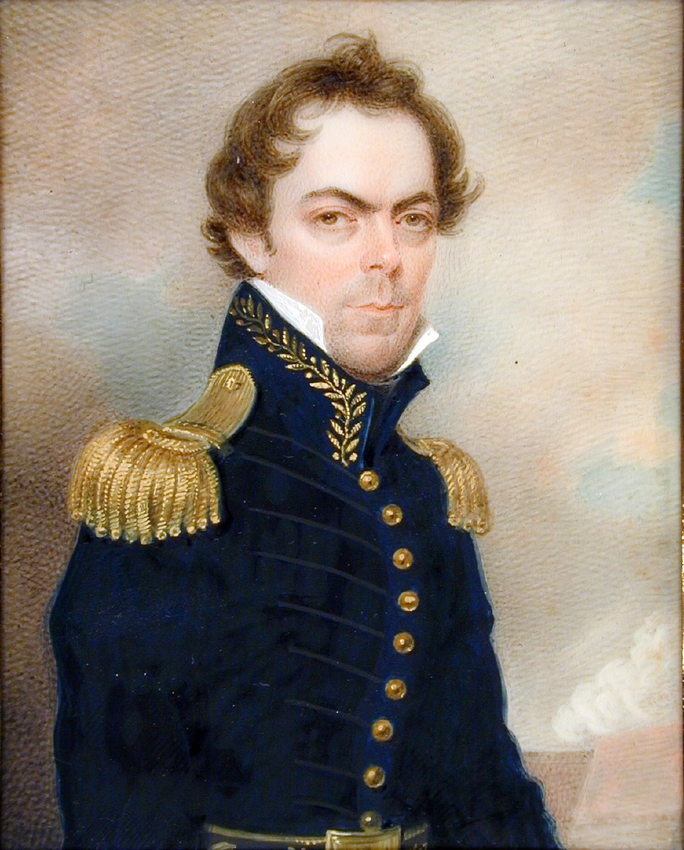 James Gadsden by Charles Fraser, circa 1831, the Gibbes Museum of Art Accession Number: 1985.013.0003